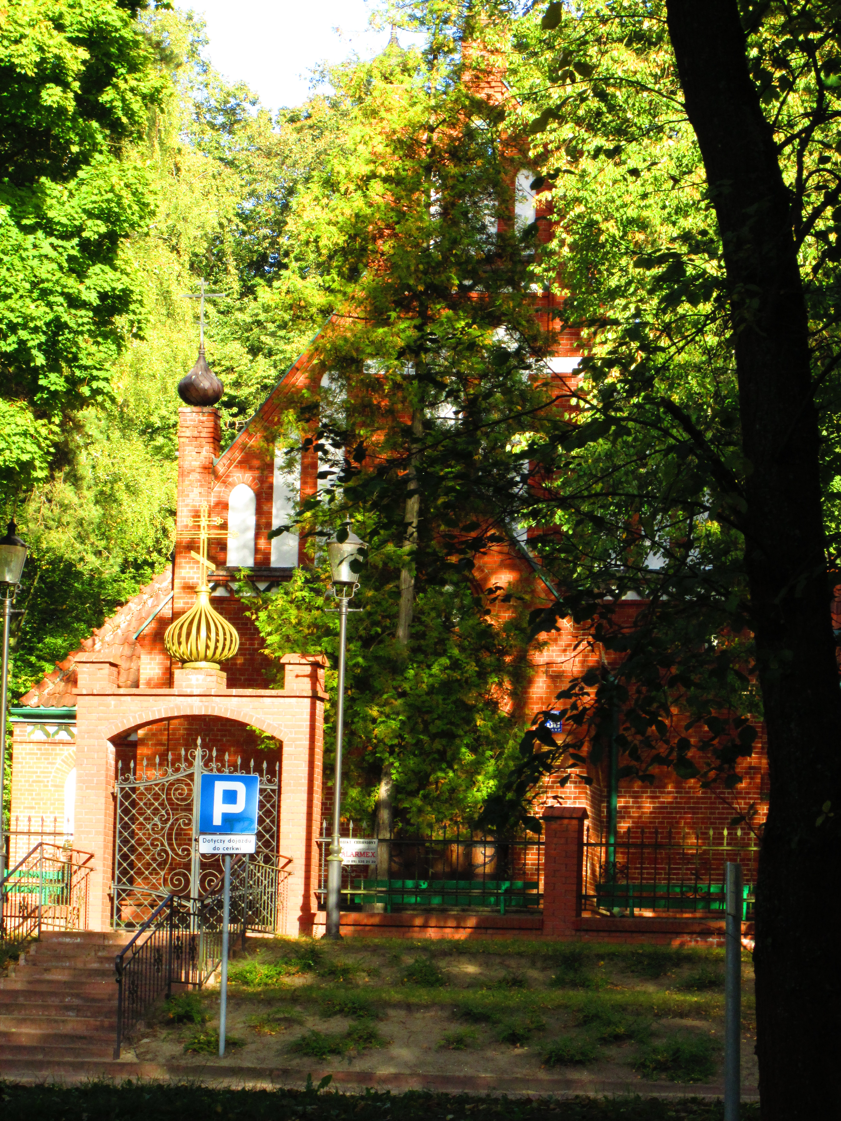 Protection of the Mother of God Church in Olsztyn